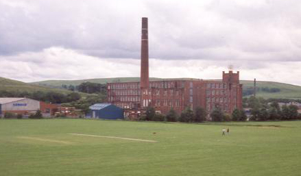 Butterworth Hall Mill : 1996 : in Milnrow, Greater Manchester, England. Milnrow's last cotton mill. Demolition had already begun at the time of this photo. A housing estate has since been built on the site.